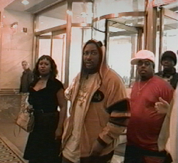 This is a pic taken at the press conference where ODB was announced to have joined Rocka Fella.